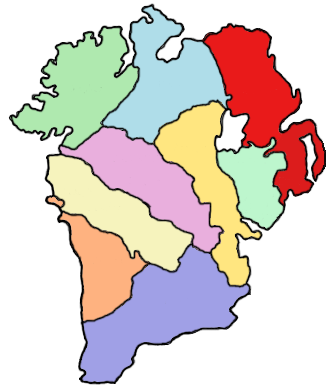 Catholic Province of Armagh. This is a current map of the ecclesiastical province in the Catholic Church. The specific dioceses are in different colours: Ardagh and Clonmacnoise - Orange Armagh - Gold Clogher - Pink Derry - Light Blue Down and Connor - Red Dromore - Light Green Kilmore - Cream Meath - Dark Blue Raphoe - Green